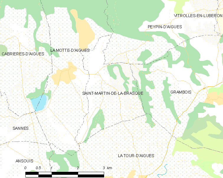 Map of French municipality Saint-Martin-de-la-Brasque